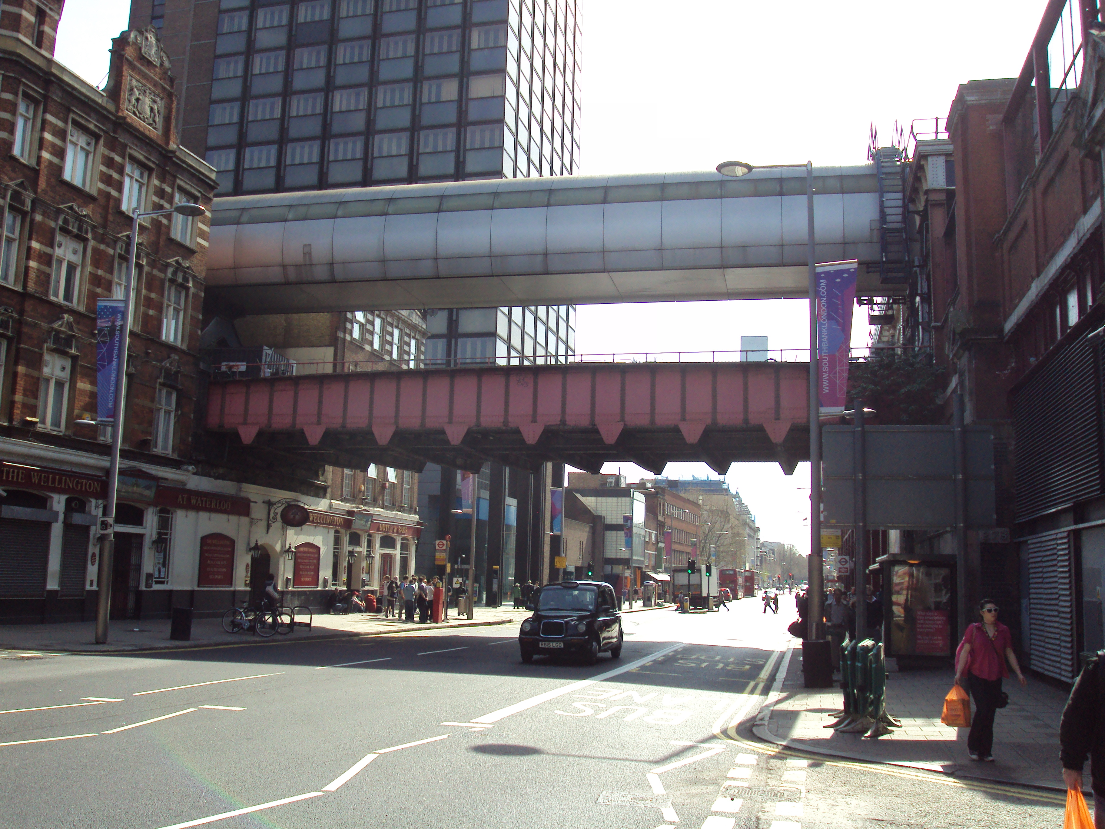 Interconnecting bridges between Waterloo East (to the left) and Waterloo (to the right) stations cross over Waterloo Road, London. The upper of the two is the one in actual use by pedestrians.